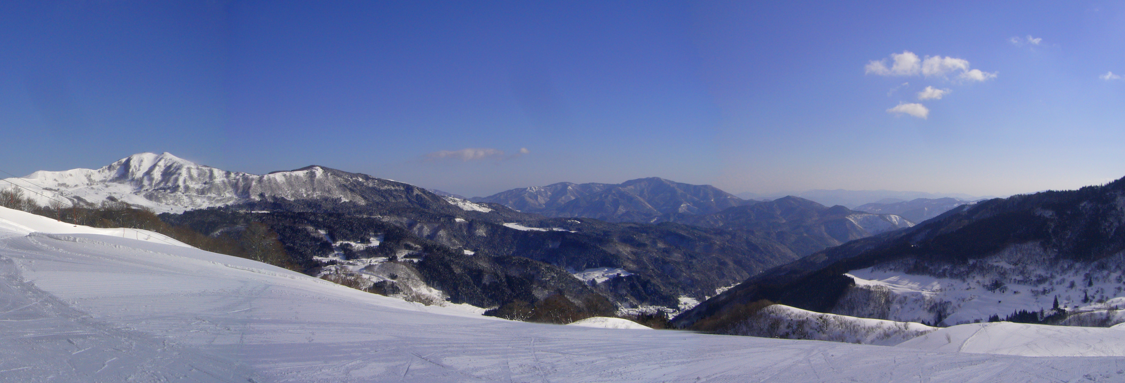 Hyonosen-Ushiroyama-Nagisan Quasi-National Park from Hyonosen International Ski resort in Yabu, Hyogo Prefecture, Japan